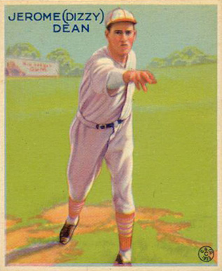 1933 Goudey baseball card of Jerome "Dizzy" Dean of the St. Louis Cardinals #223. PD-not-renewed.